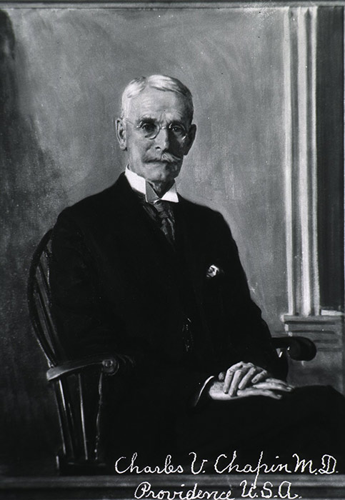 Charles V. Chapin. 1910. "The Sources and Modes of Infection". John Wiley & Sons, New York.